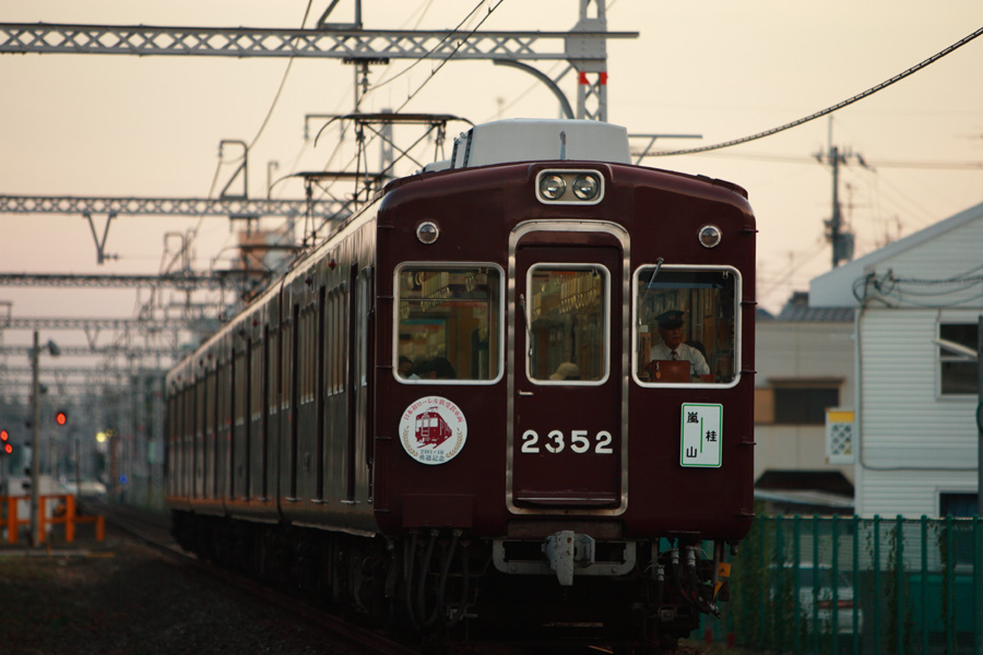 Hankyu Railway 2300Series